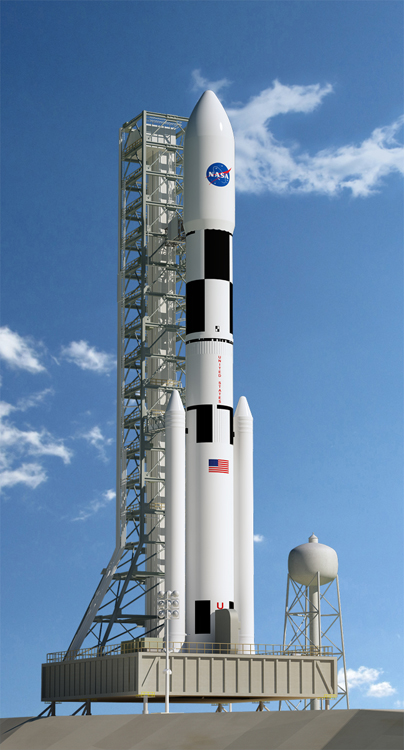 An artist's impression of NASA's Block II Space Launch System launch vehicle, currently under development.